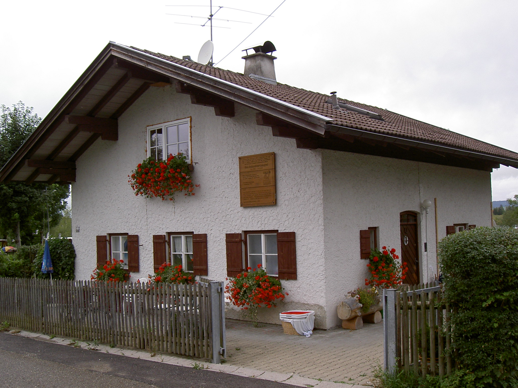 In this house at the lake "Bannwaldsee" (Bavaria, Germany) the "group 47" was founded, former living house of German writer Ilse Schneider-Lengyel